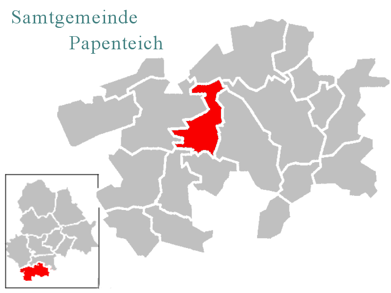 Location of Rethen in the Samtgemeinde Papenteich